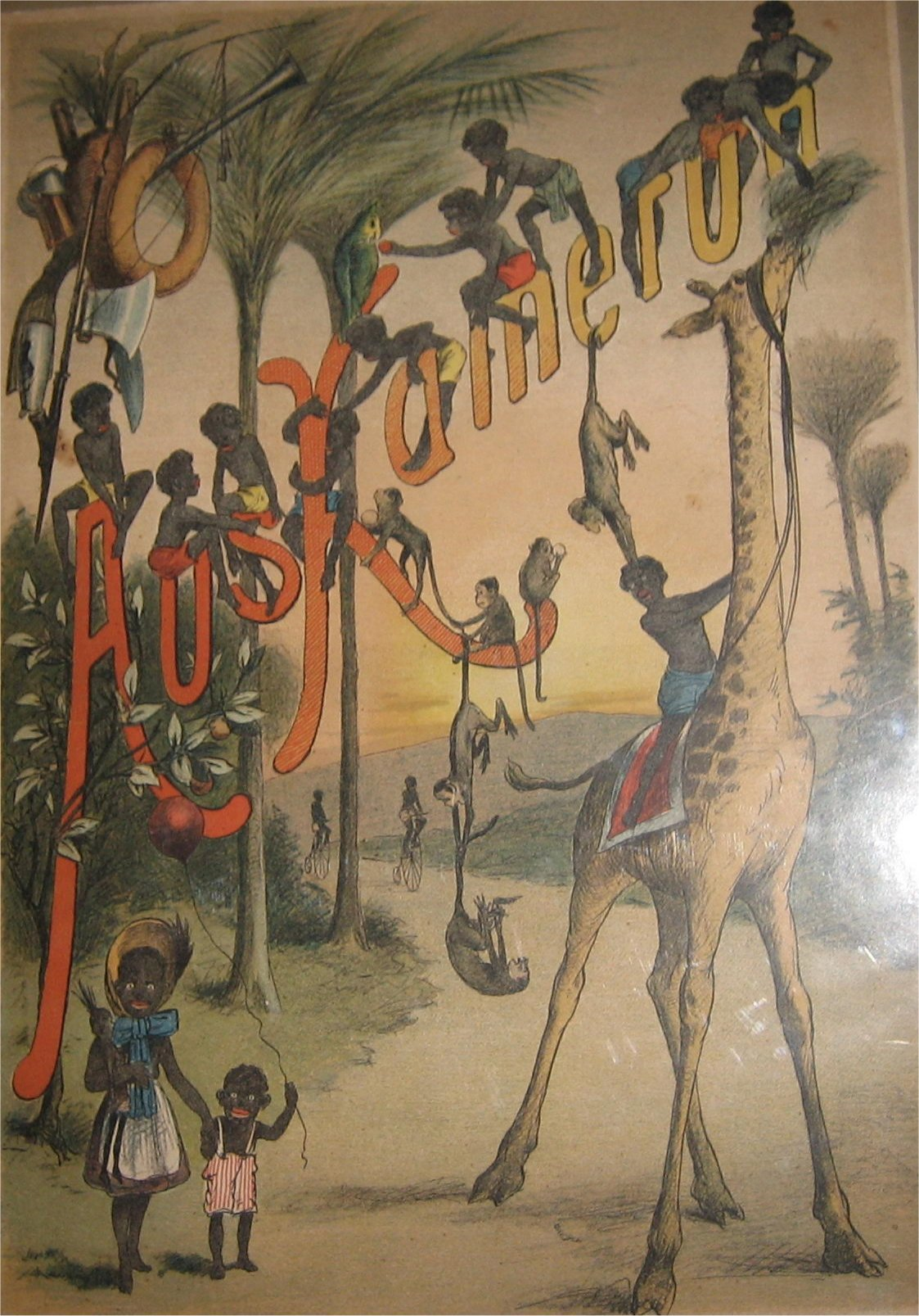 Cover of book "Aus Kamerun"